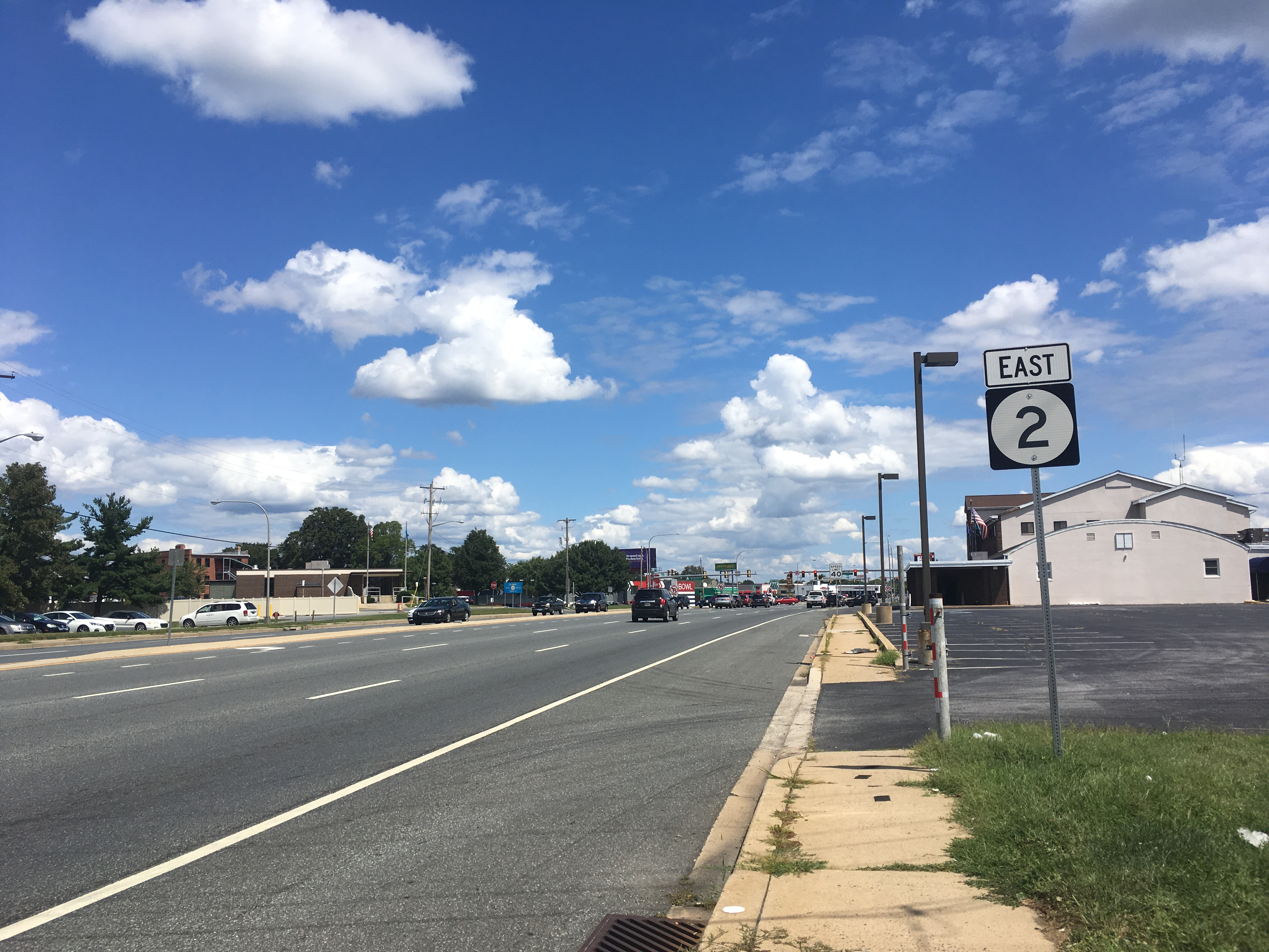 Eastbound Delaware Route 2 (Kirkwood Highway) past the intersection with Delaware Route 41/Delaware Route 62 (Newport Gap Pike) in Prices Corner, Delaware